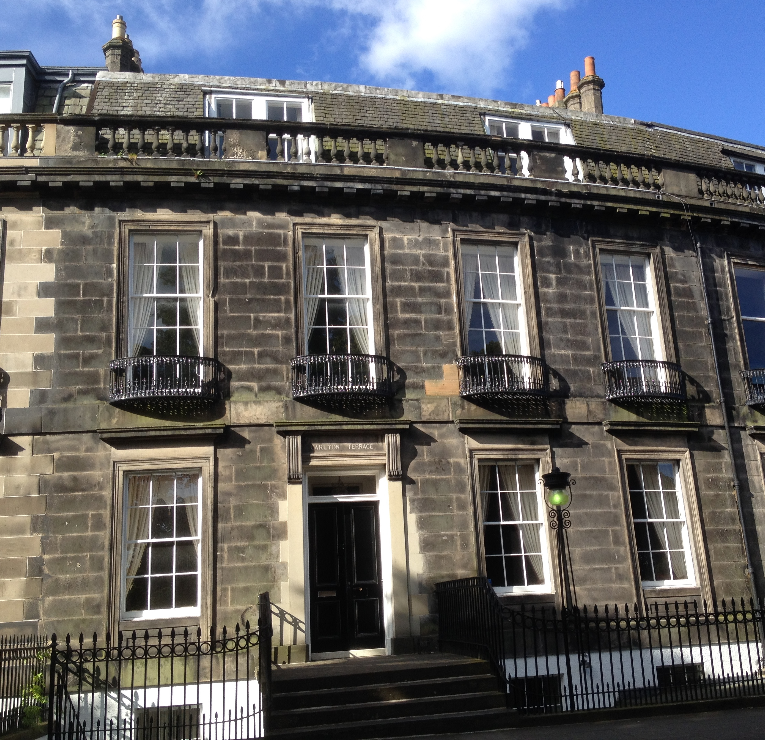 11 Carlton Terrace, Edinburgh